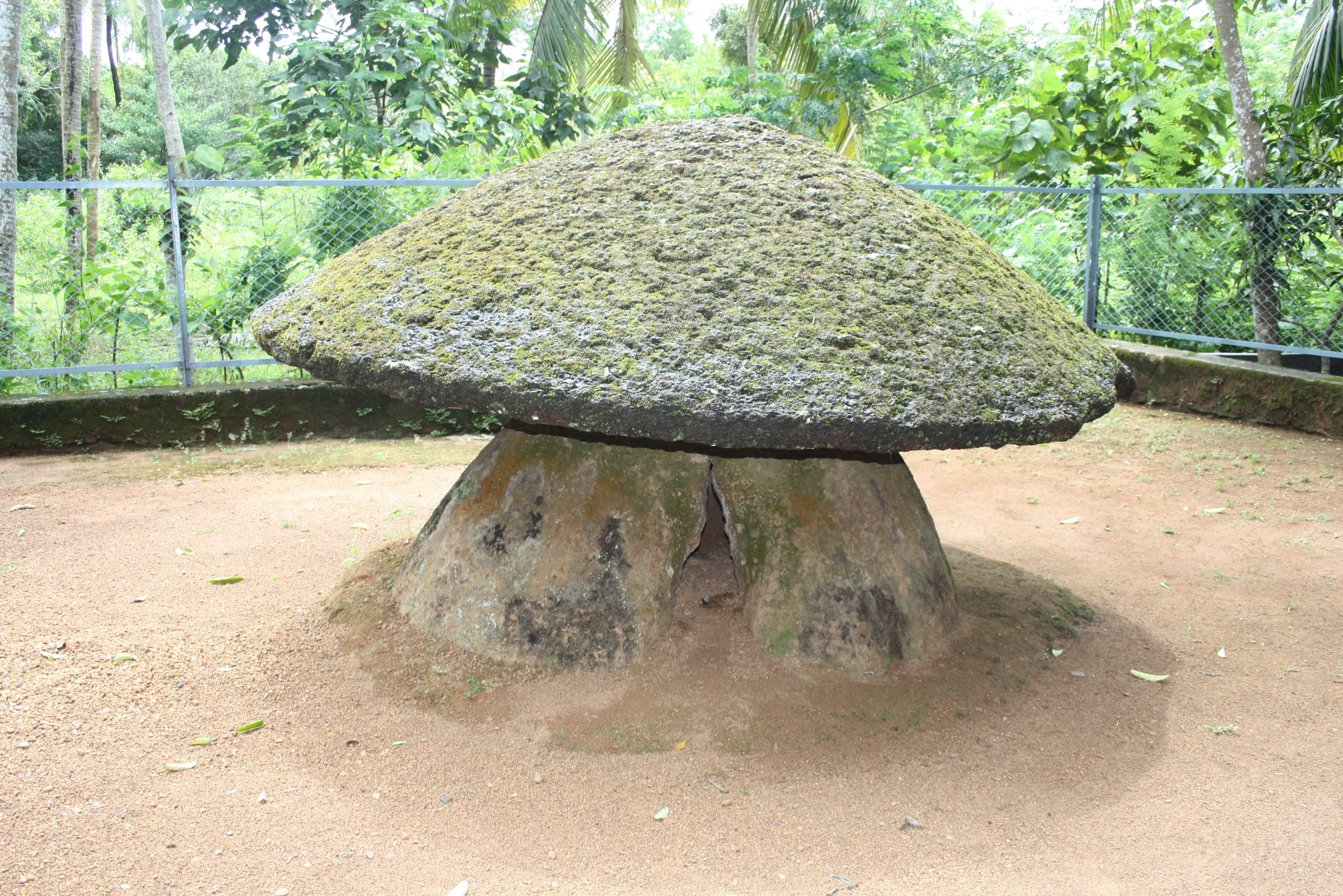 Ariyannur Umbrellas are situated in Ariyannur, Thrissur District. Ariyannur is one of the famous megalithic sites in Kerala. It has huge umbrellas stones covering the burials. Six umbrella stones stand here in a ground in a group. Of them four are intact and two are partly broken. The megalithic burials are the predominant archaeological remains of the Iron Age. The site is protected under the control of Archaeological Survey of India, Thrissur, since 1951.